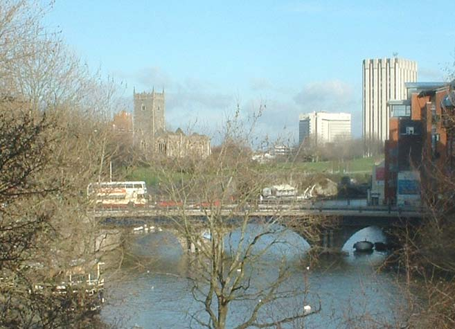 Castle Park, Bristol in the winter (full size)